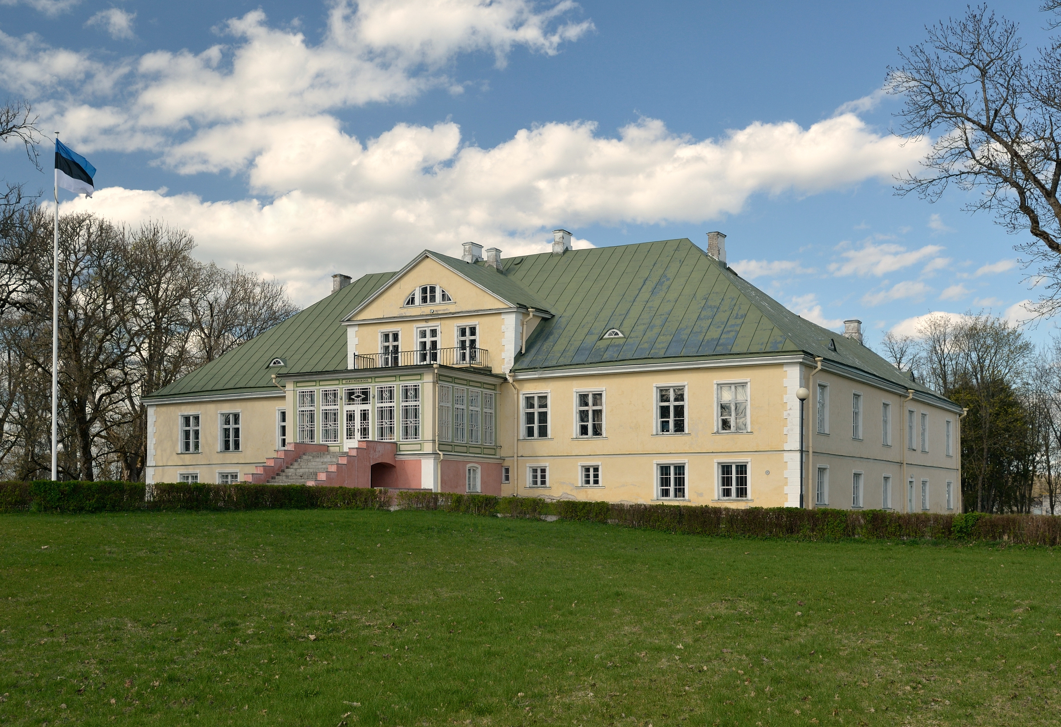 Albu manor main building